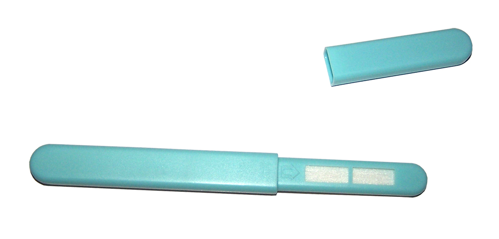 Pregnancy test